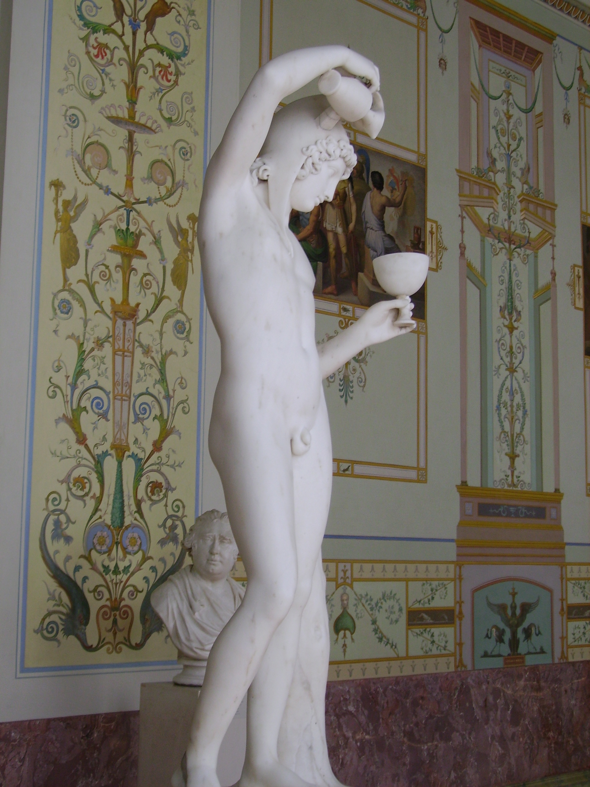 Creator: Bertel Thorvaldsen (ca. (1770-1844)). Title: Ganymede pore a "cup of nectar". Location: Hermitage, St. Petersburg. Yair Haklai, taken Aug 10th, 2007.